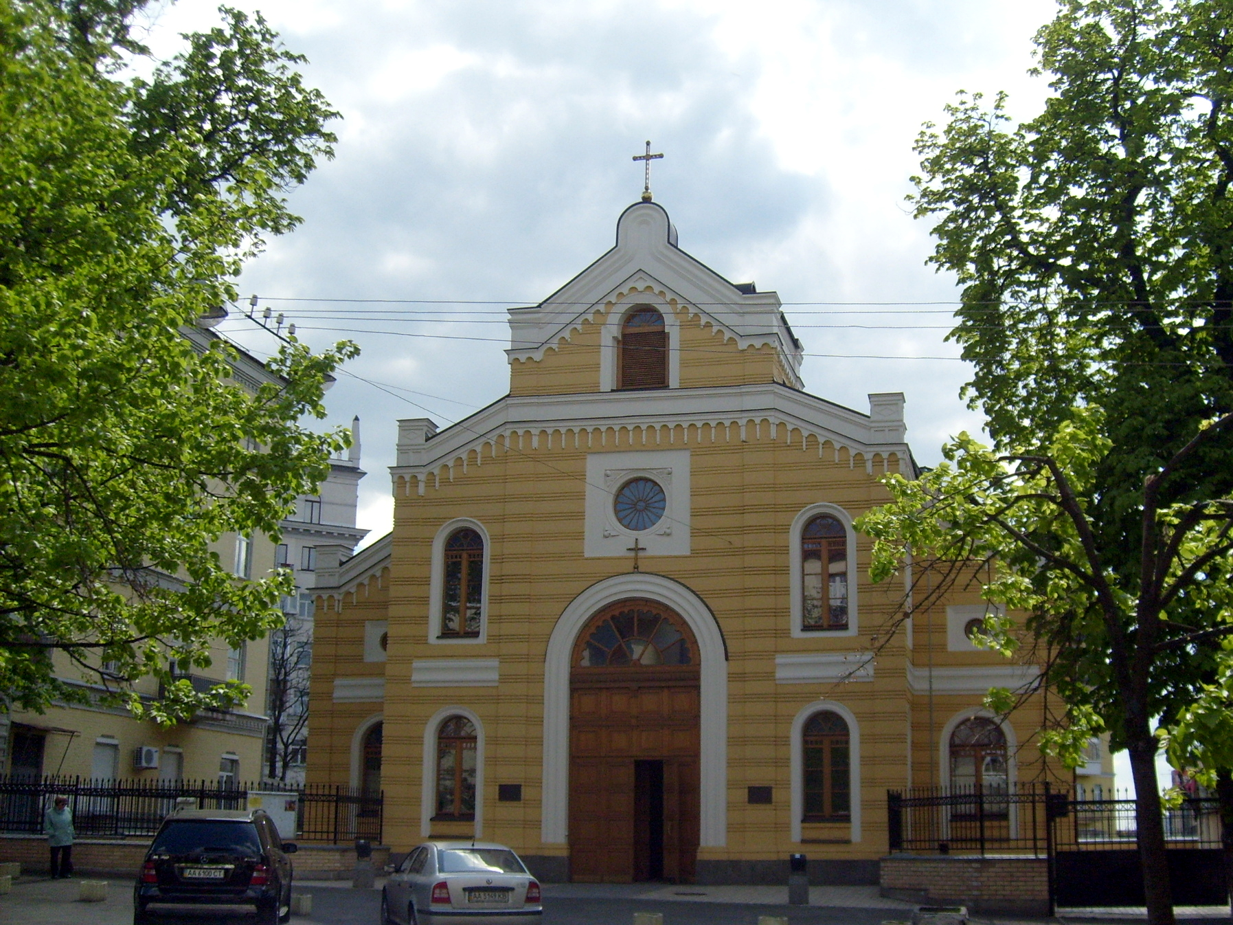 Lutheran church in Kiev.